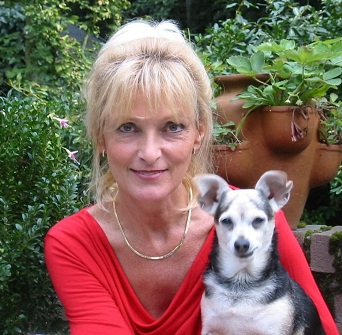 Annemarie van Gelder in 2005, with her dog Pablo